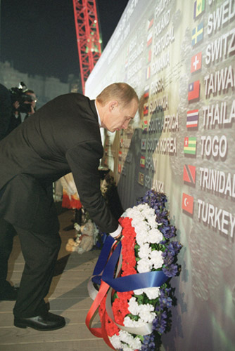 NEW YORK CITY. President Vladimir Putin laying a wreath at the World Trade Centre Memorial Wall, on the site of the 9/11 terrorist attack.